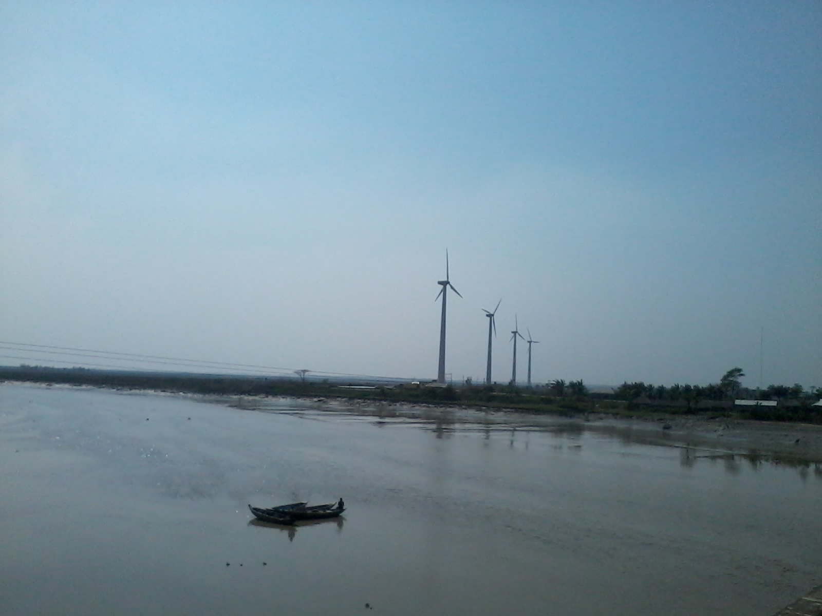 Wind Electricity Project in Riverside-Muhuri Project, Sonagazi, Feni